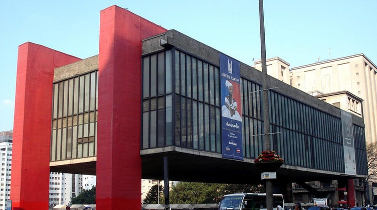 MASP - São Paulo, Brazil